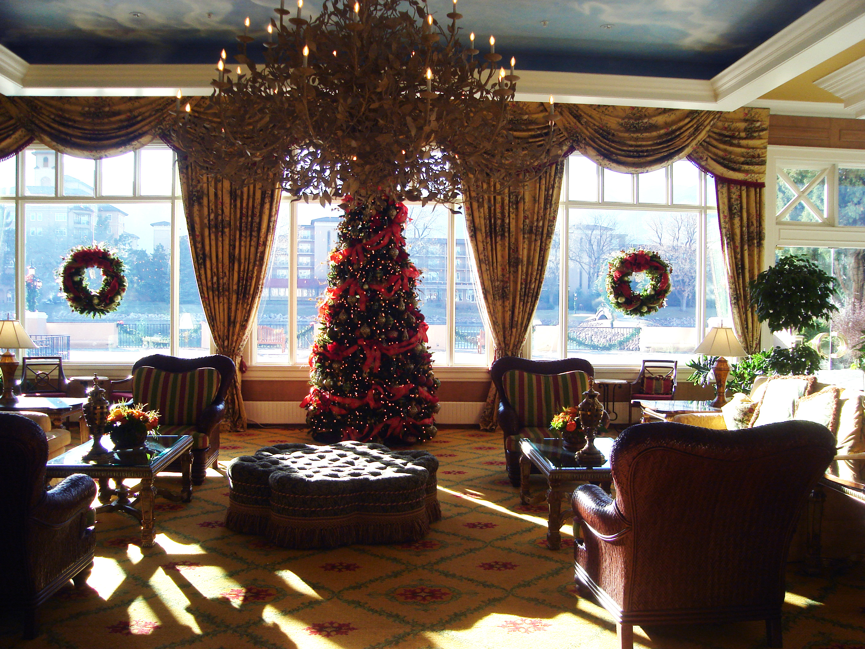 There's a lot of Christmas stuff inside. This is just a small peek.